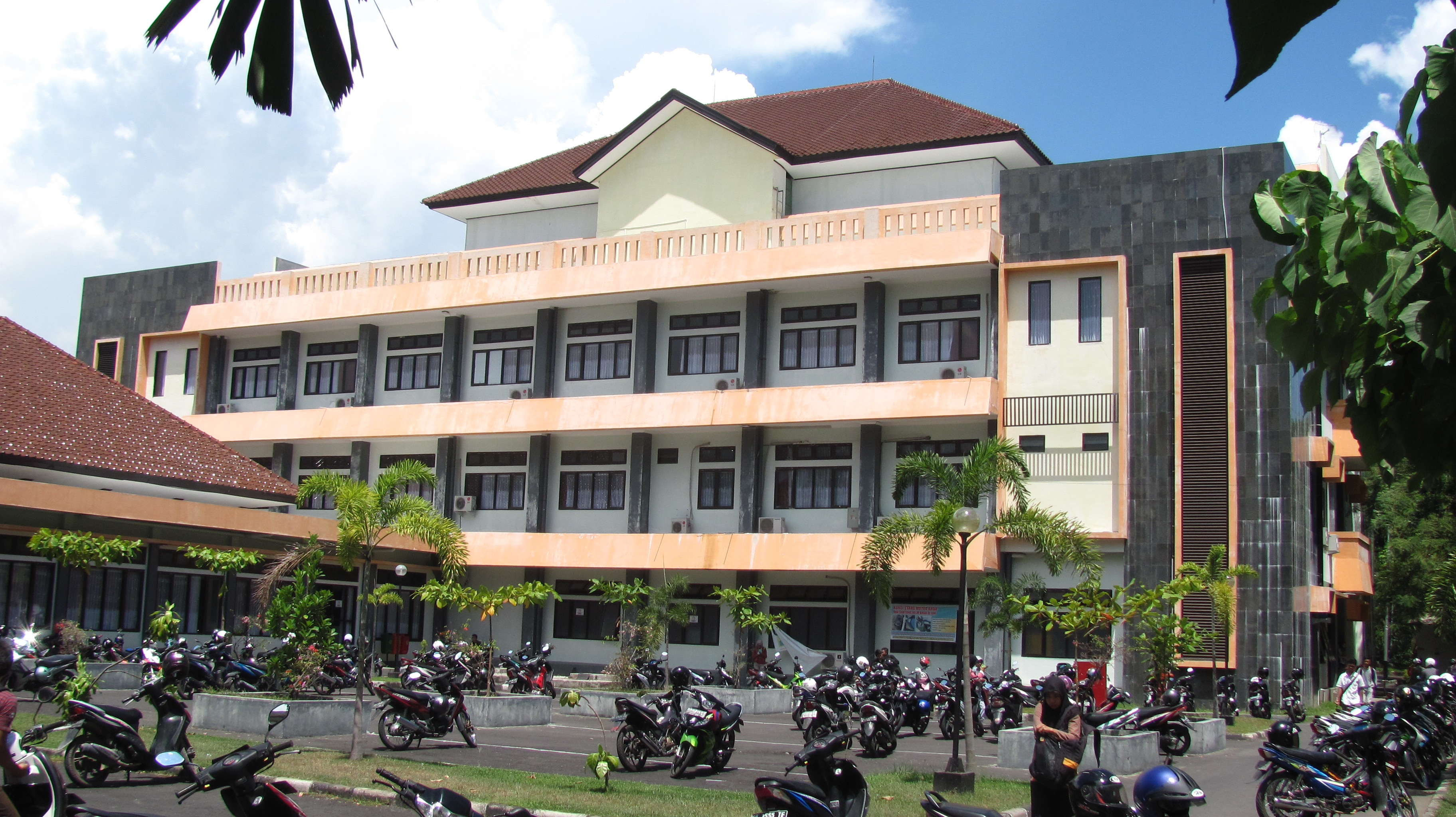 Campus of the University of Mataram, Mataram, Indonesia